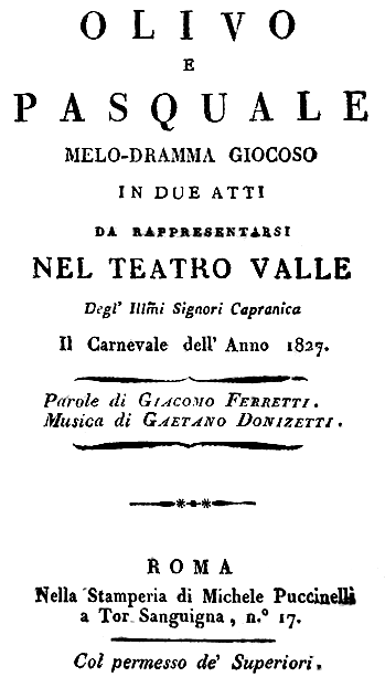 Gaetano Donizetti - Olivo e Pasquale - titlepage of the libretto - Rome 1827